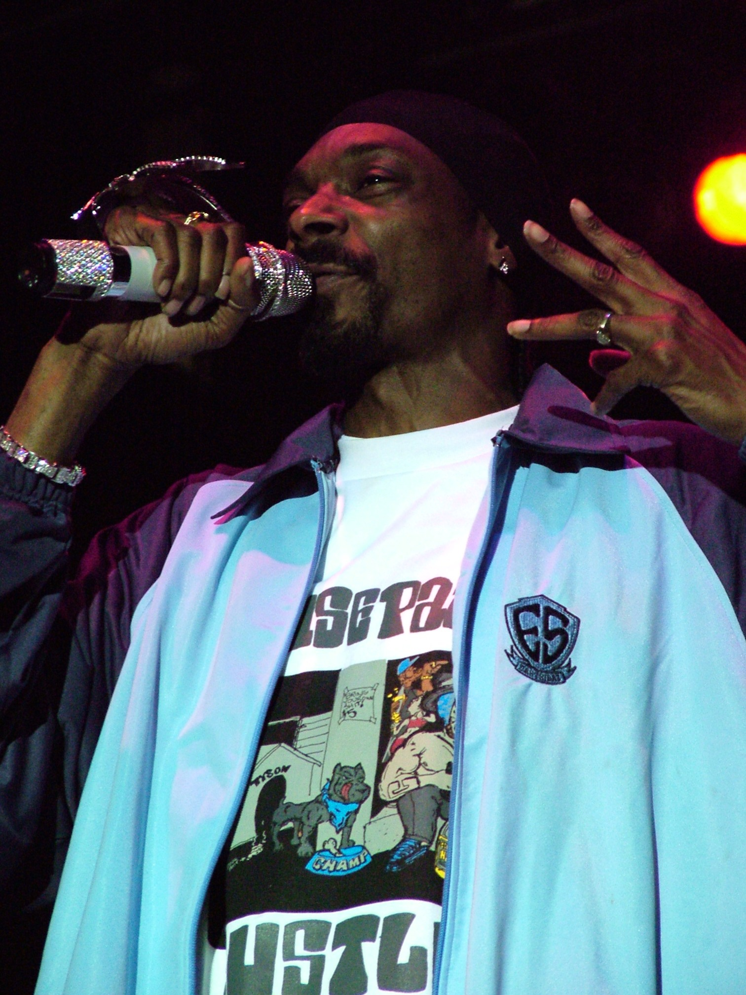 Snoop Dogg performing at City Stages festival in 2006.